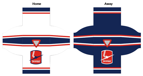 Jersey designs for Southampton Spitfires Ice Hockey Team in the UK.